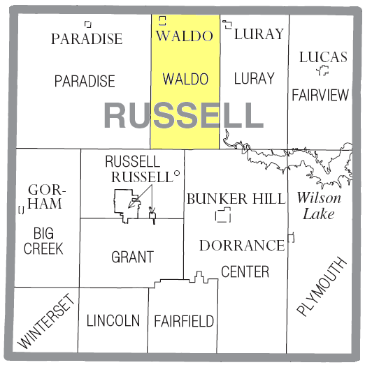 Map of Russell County, Kansas highlighting Waldo Township